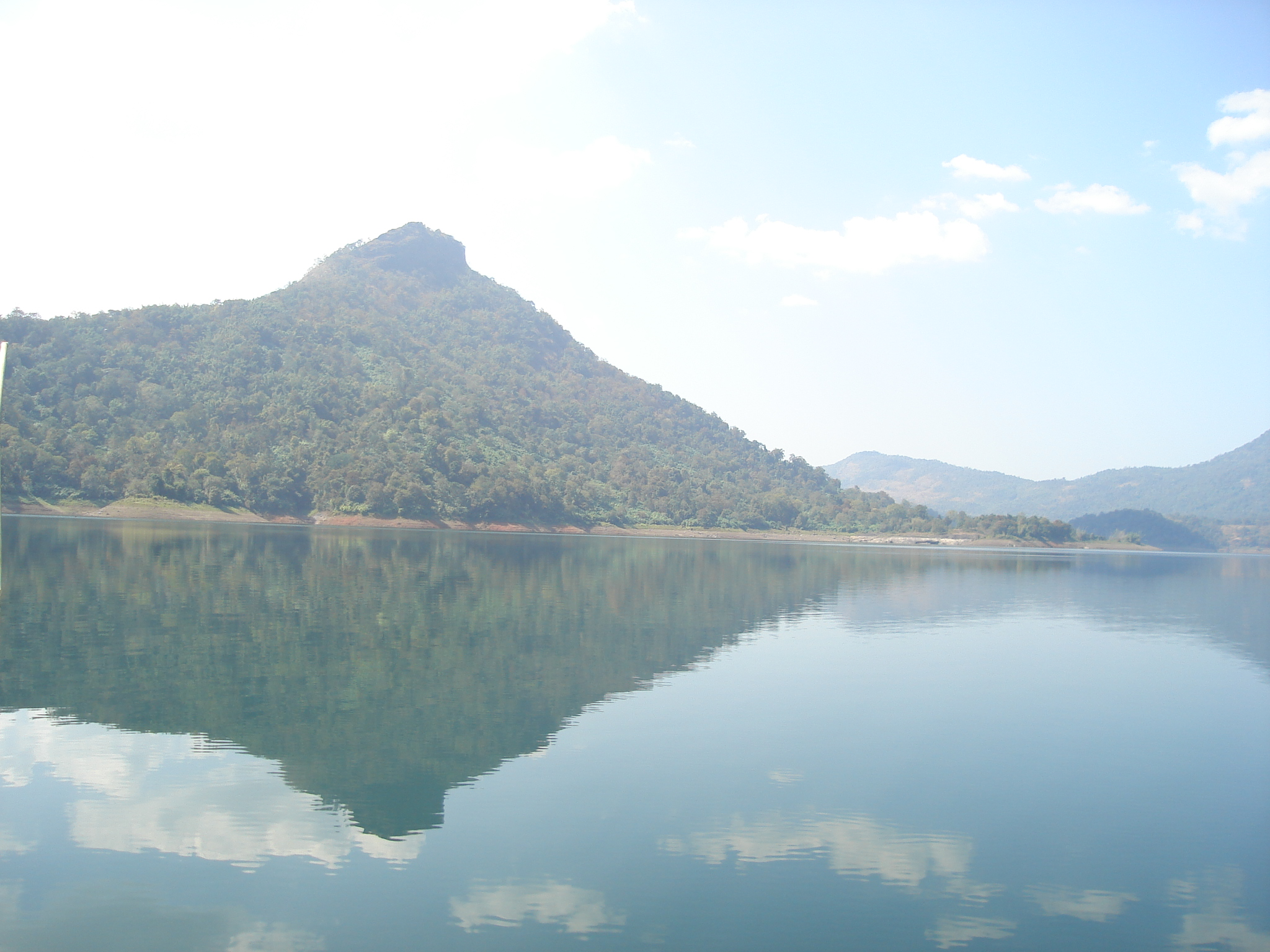 IndamalayarReservoir View